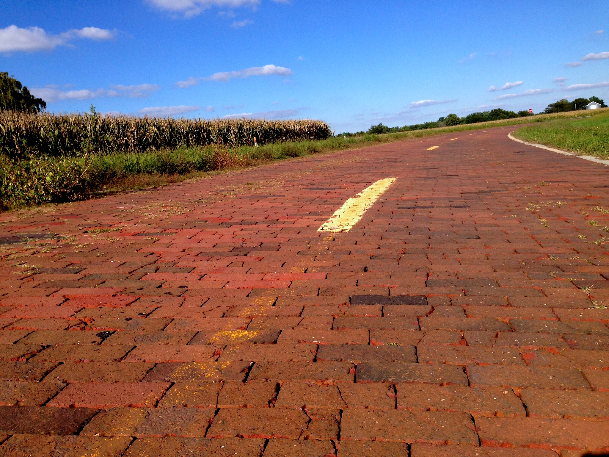 Illinois Route 4-North of Auburn, Curran and Snell Rd., Auburn